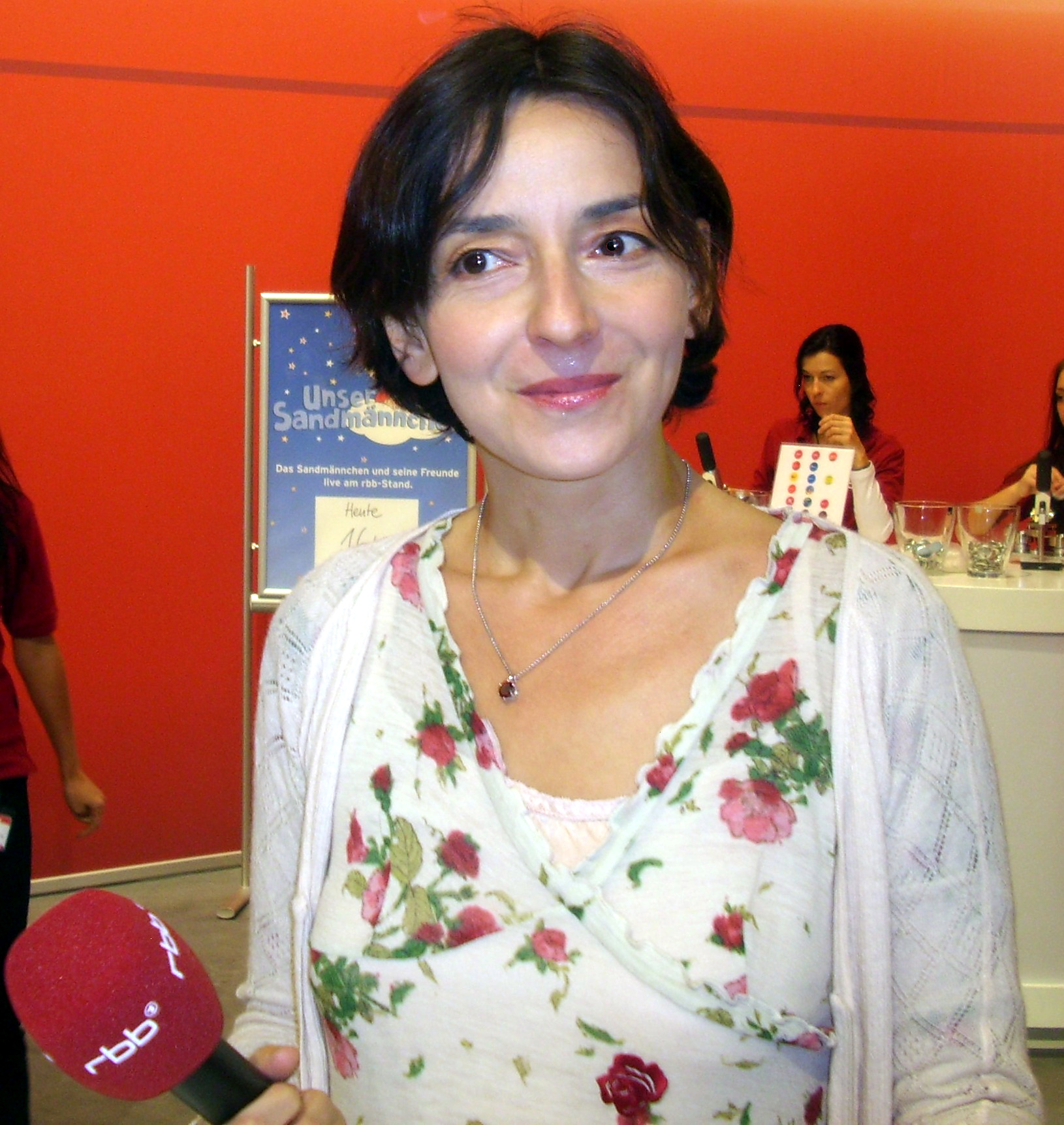 Nadya Luer at the International Consumer Electronics Fair in Berlin (IFA)